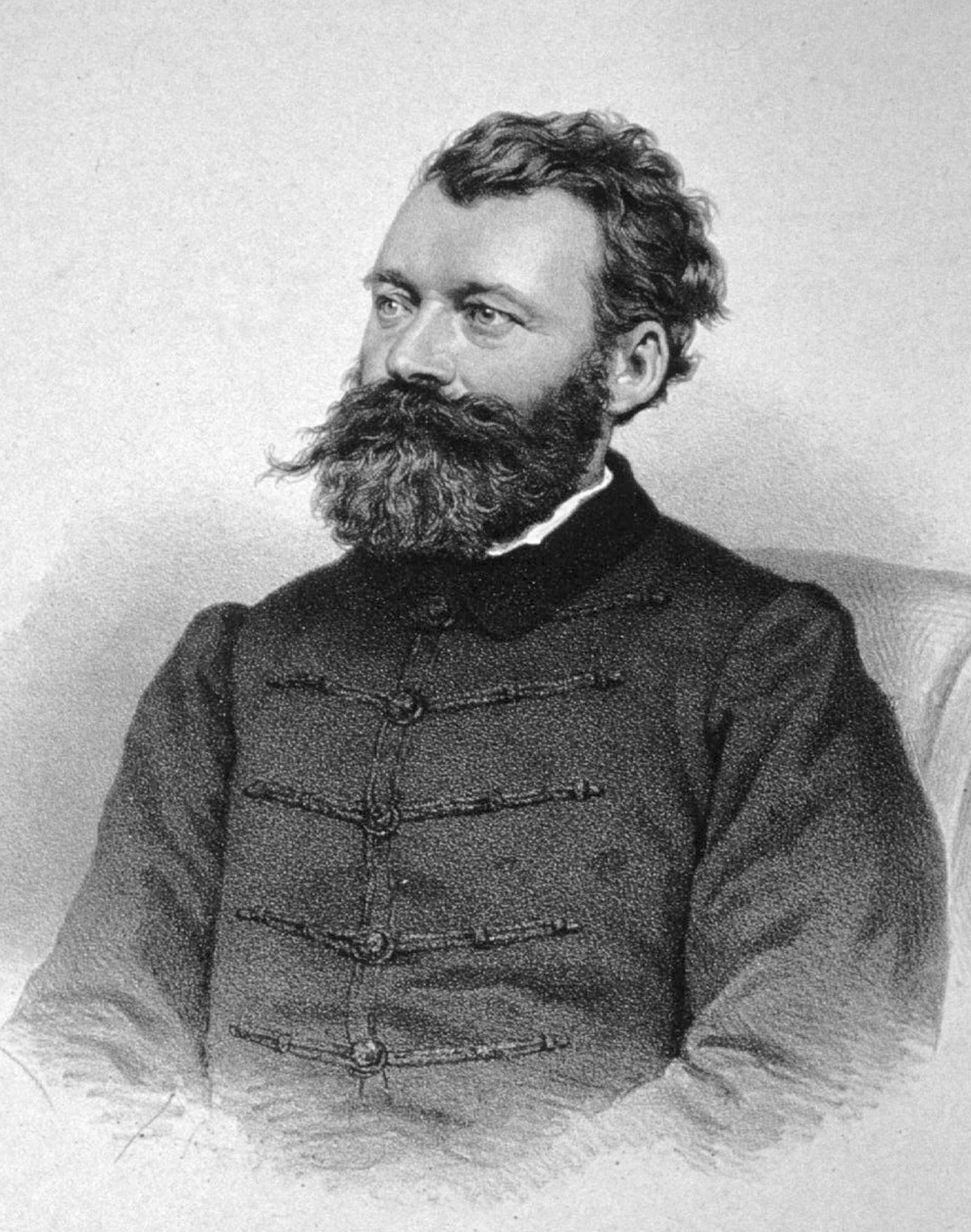 Svetozar Miletic (1826-1901), Serbian journalist, author, politician. Mayor of Novi Sad. Lithographs by Josef Kriehuber, 1867